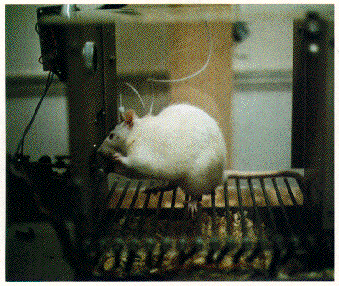 Skinner box